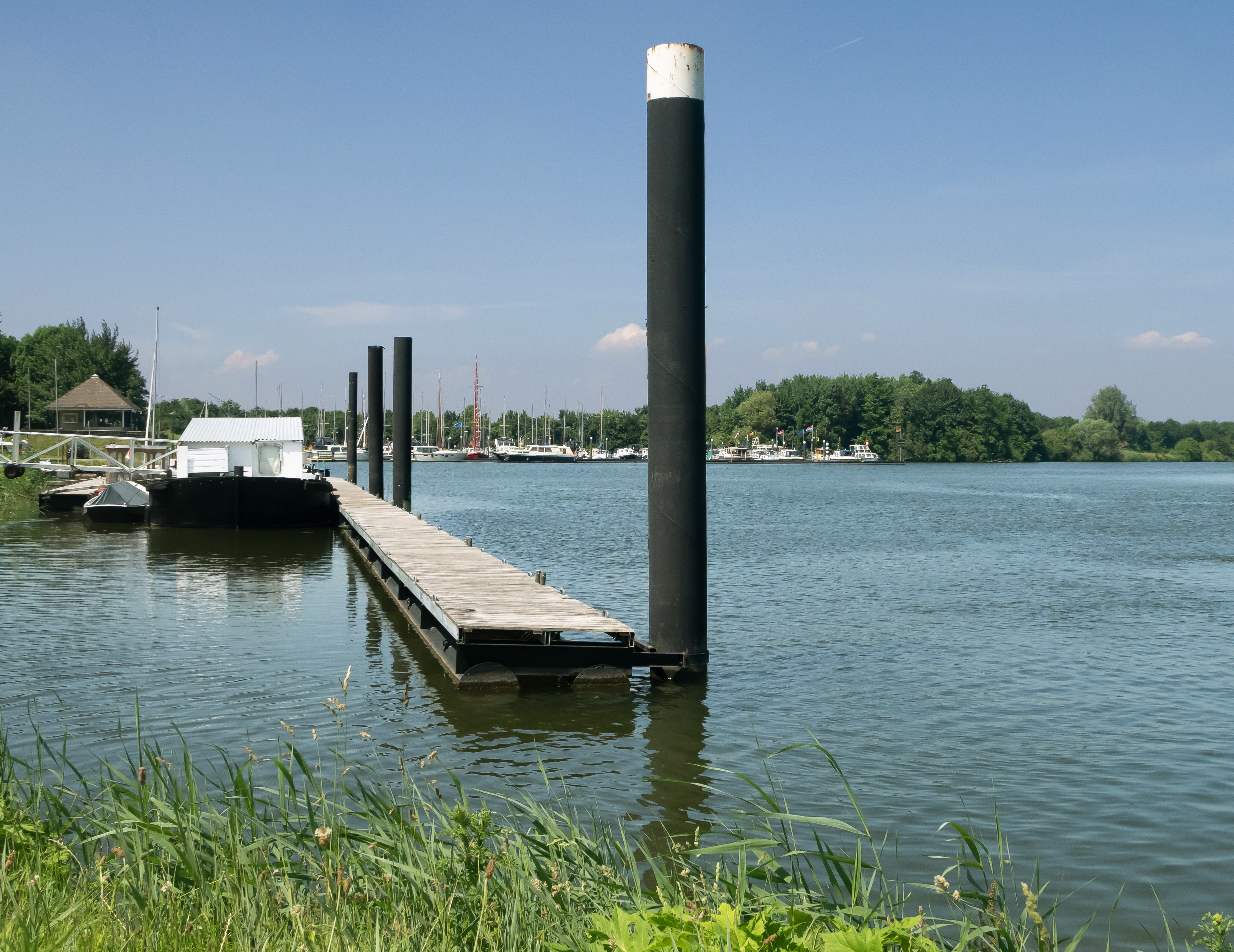 Maasbommel, marina